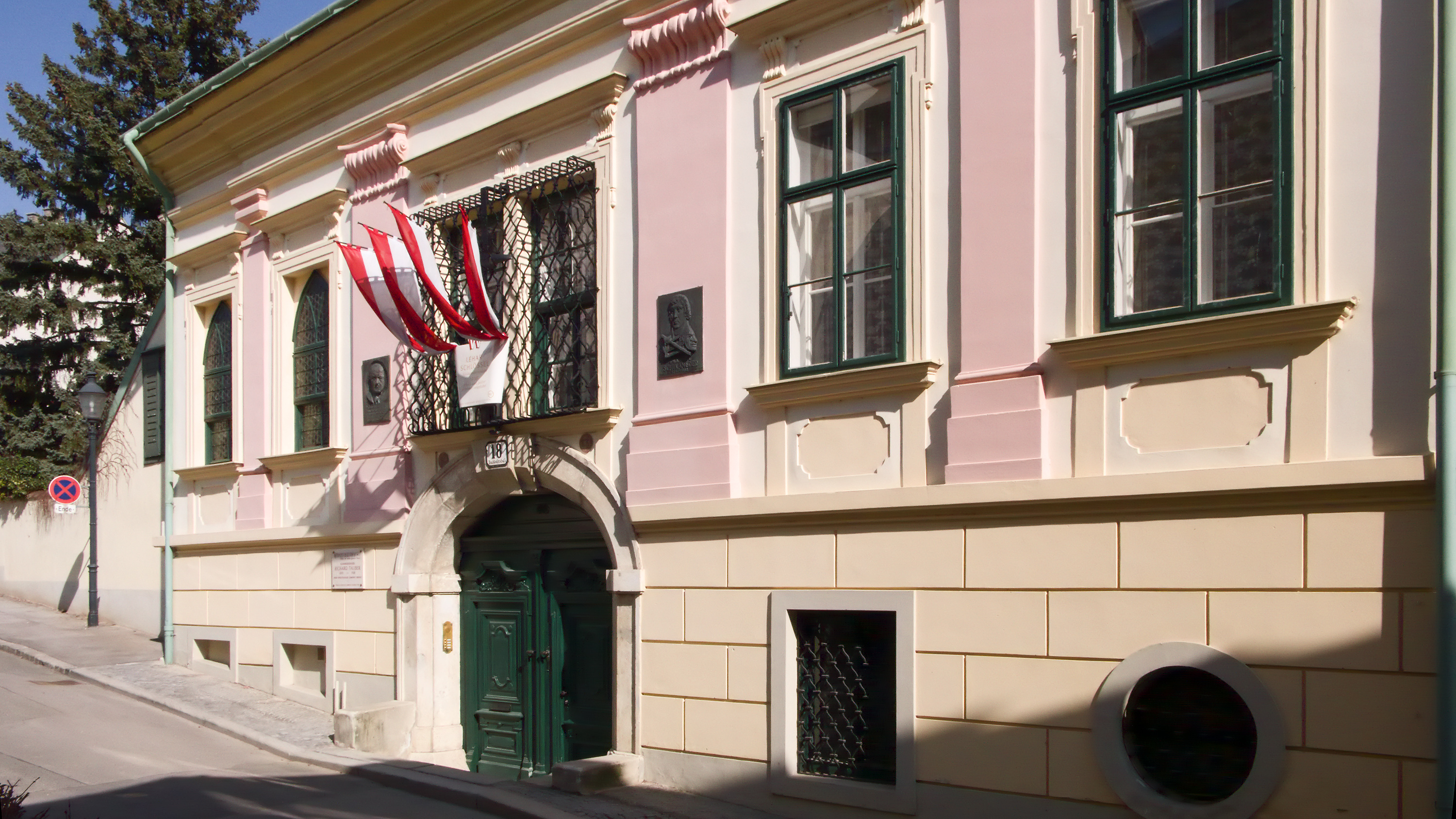 Lehár-Schikaneder-Schlössl in Vienna Döbling